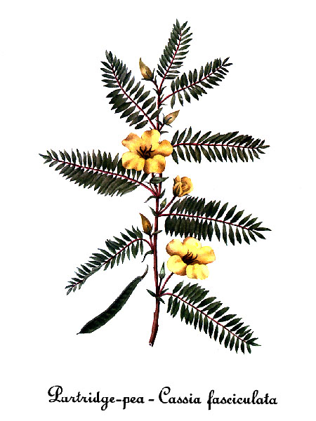 Watercolor painting of Cassia_fasciculata.